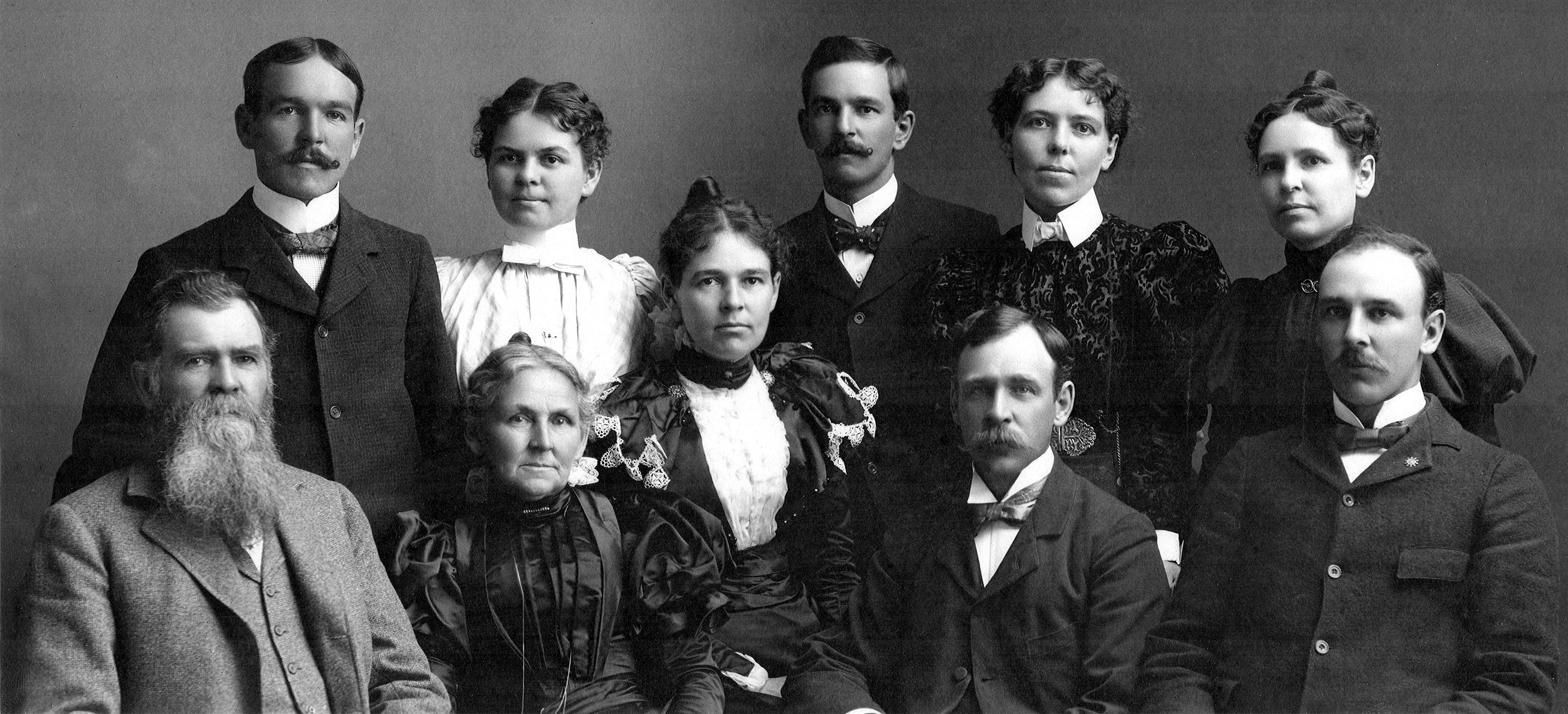 Blick family photo, ca 1892, Iowa. Back row, left to right: John Charles Blick, Catherine Fay Blick (Wells), Judd Dunning Blick, Grace Blick (Ingram), Madge Hunter Blick (Ford) Front row, left to right: James Shannon Blick, Phoebe Elinor Blick, Blanche Blick (Burnham), Homer Eli Blick, Joseph James Blick